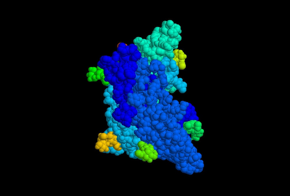 Follicle stimulating hormone.